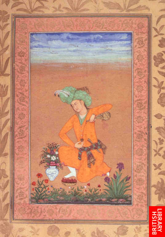 A Prince in Iranian Costume by Muhammad Khan. Dara Shikoh Album, Agra, 1633-34.